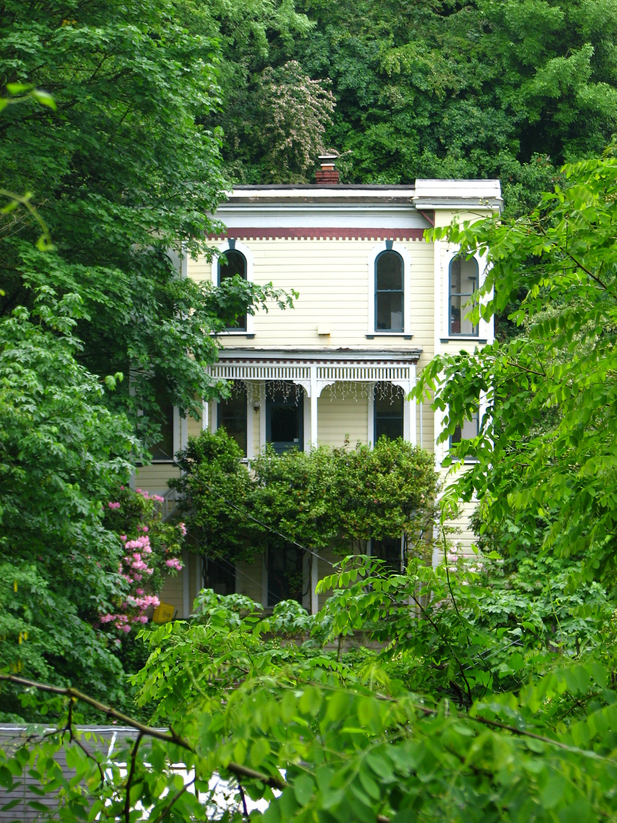 The historic Alice Druhot House (built 1891) at 1903 Southwest Cable Street in Portland, Oregon, United States, is listed on the US National Register of Historic Places.